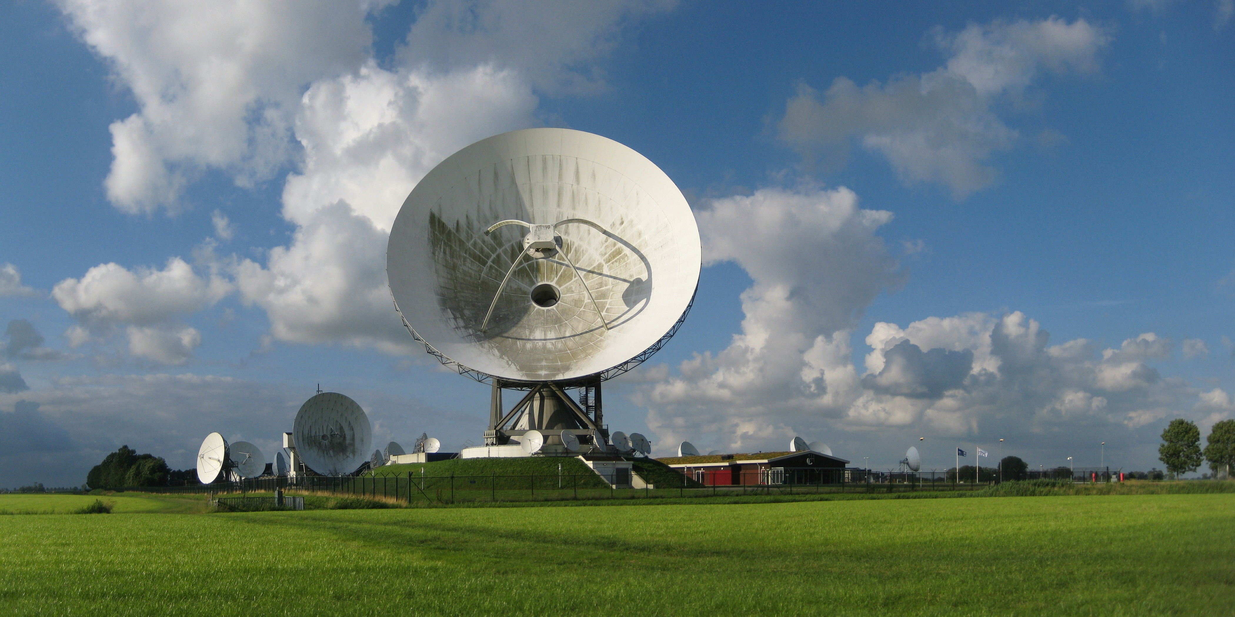 Satellite ground station of the Dutch Nationale SIGINT Organisatie (NSO) (2012) near Burum, a village in the Dutch province of Fryslân.